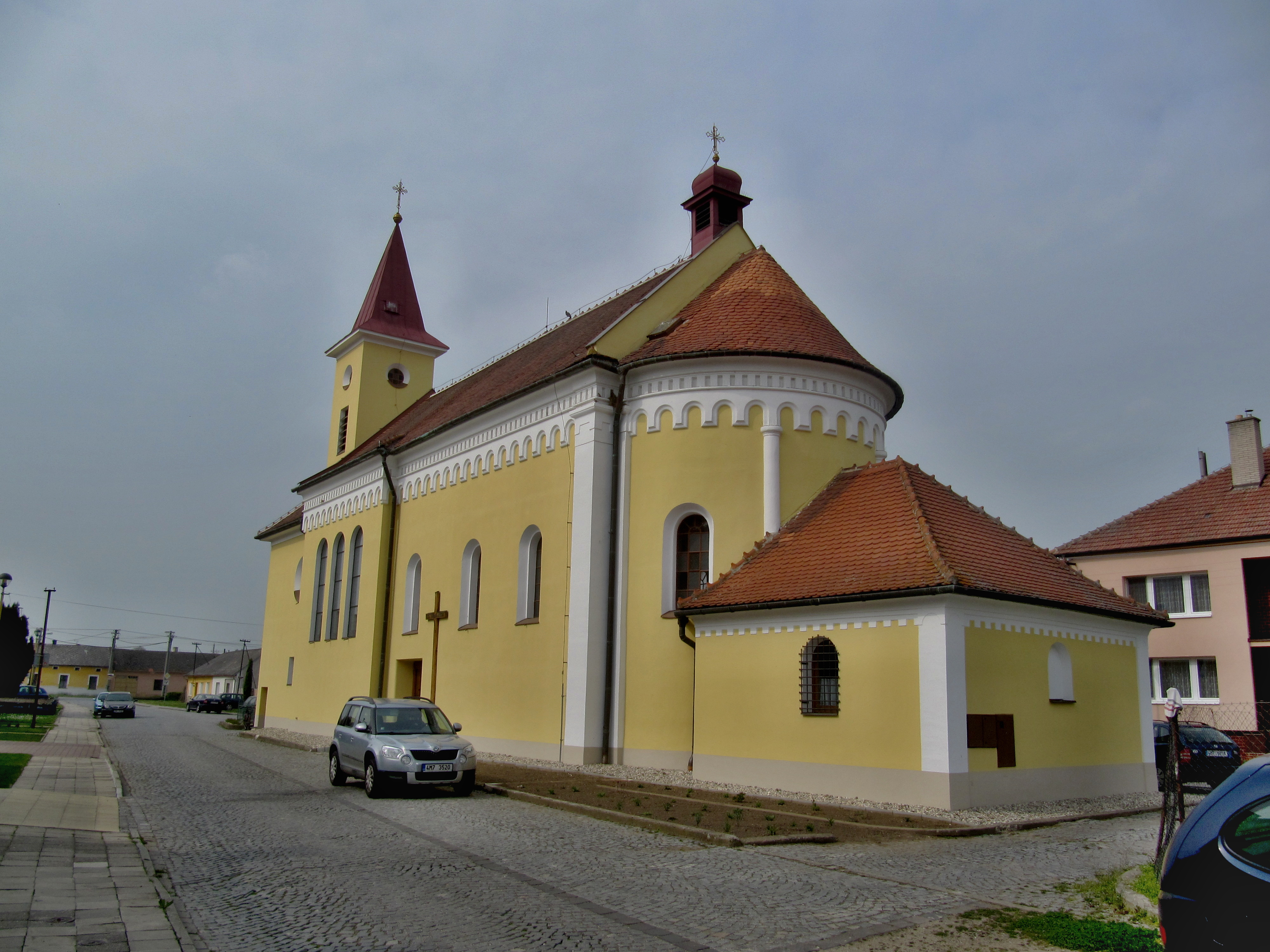 Kostelany nad Moravou, Uherské Hradiště District, Czech Republic.